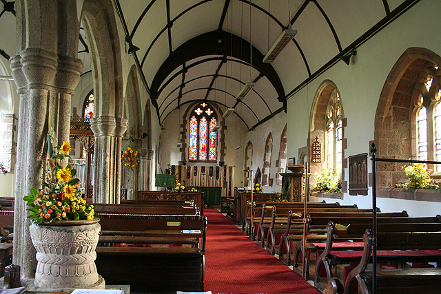 Cheriton Bishop: interior of St Mary’s church The dedication was to St Michael before the reformation. With a granite arcade to the north aisle, where a section of the medieval rood screen has survived